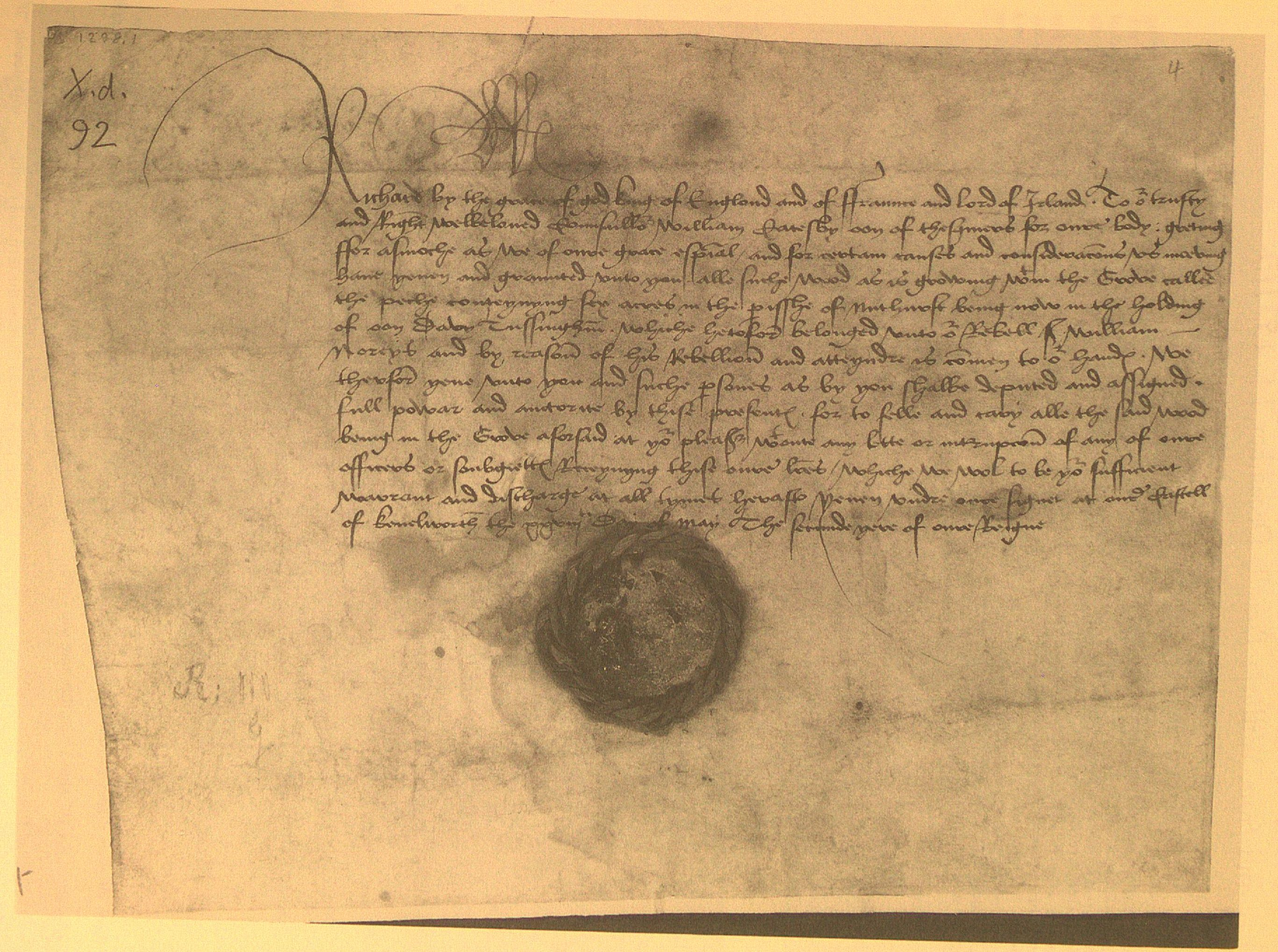 A charter of King Richard III for William Catesby. Washington (D.C.), Folger Shakespeare Library, MS. X. d. 92.